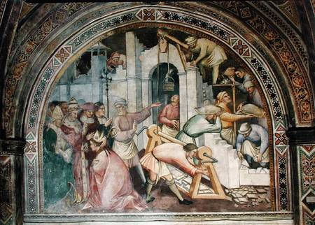 "The History of Pope Alexander III (1105-81): Construction of the Town of Alessandria"